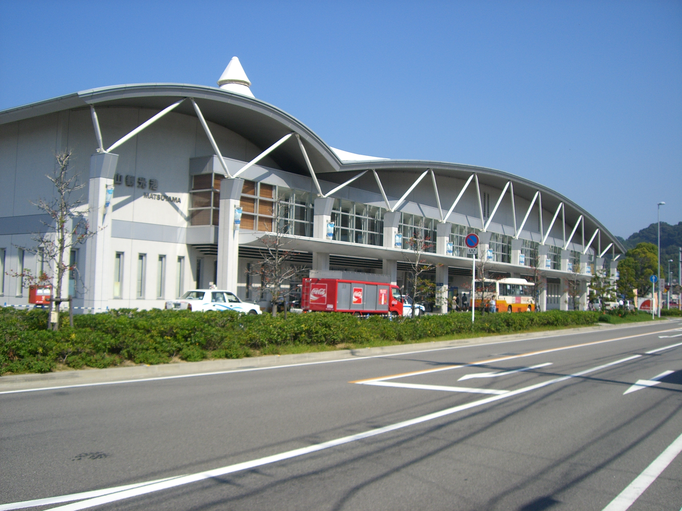 “Matsuyama-KANKO-Port Passenger Terminal Building (Matsuyama Kanko-ko)”This is Matsuyama’s gate to the Oceans.You can admire the beautiful view of the Inland Sea(“Setonaikai”). Ferries and jet boats leave for Hiroshima,Kure,Kokura(in Kyushu).